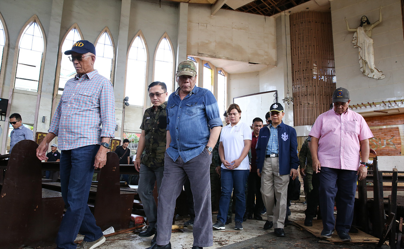 President Rodrigo Roa Duterte conducts an inspection inside the Cathedral of Our Lady of Mount Carmel in Jolo, Sulu on January 28, 2019 where two explosions occurred inside and outside the church last January 27.